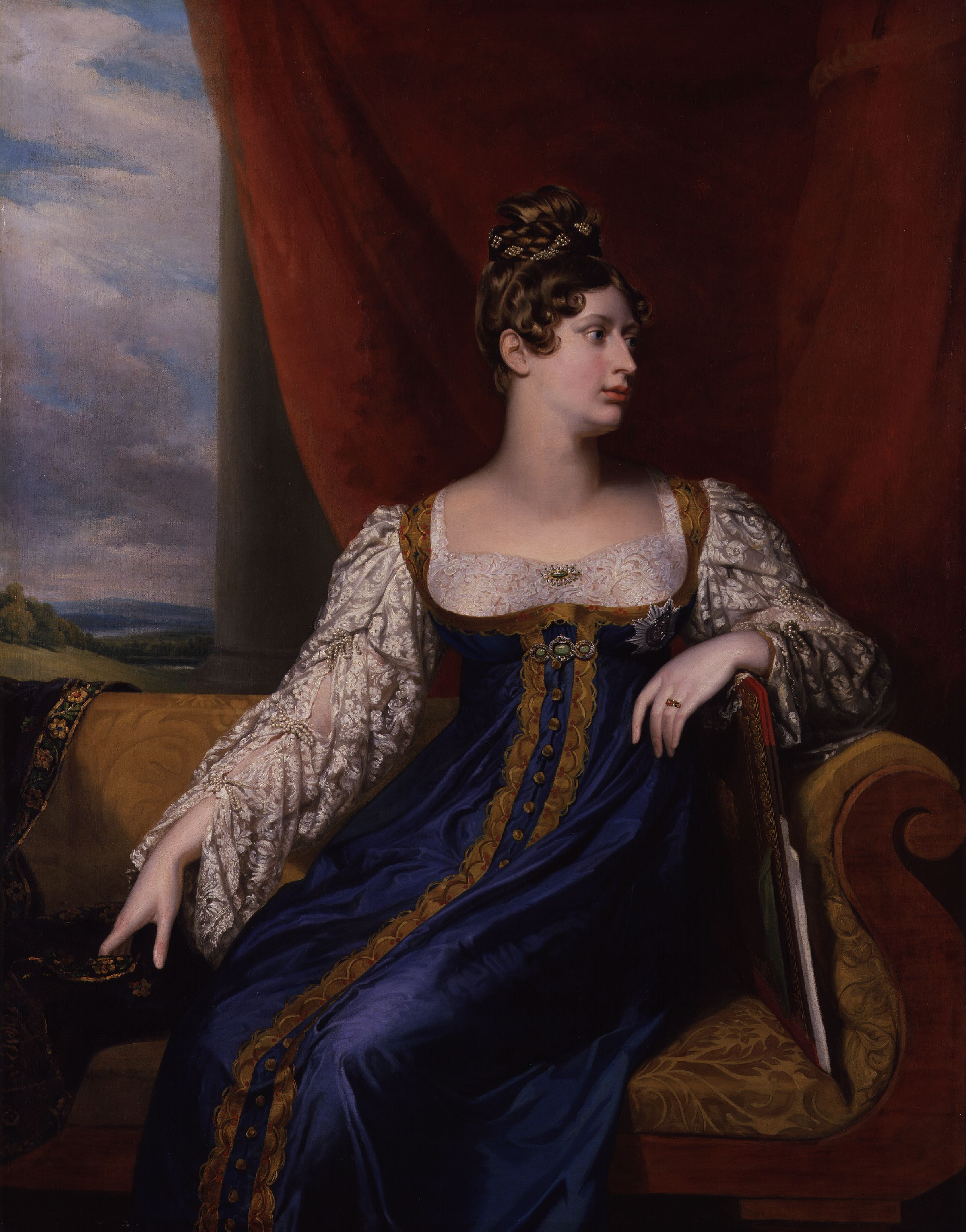 Princess Charlotte of Wales (1796–1817), only child of George IV of the United Kingdom and Caroline of Brunswick, shortly before her death delivering a stillborn son in 1817. Her husband was Prince Leopold of Saxe-Coburg-Saalfeld, the future Leopold I of the Belgians.